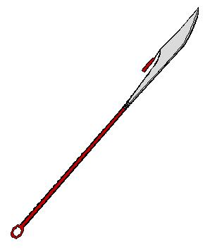 A podao picture